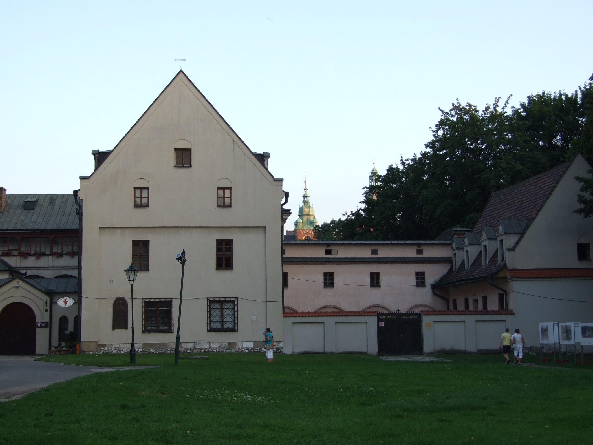 Franciscan Monastery, Kraków, Poland